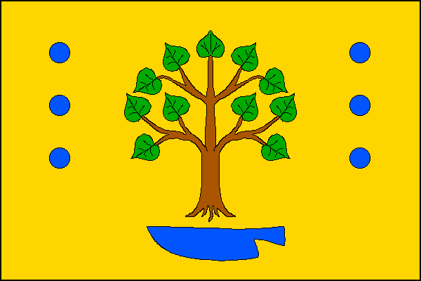 Municipal flag of Brodek u Konice village, Prostějov District, Czech Republic.